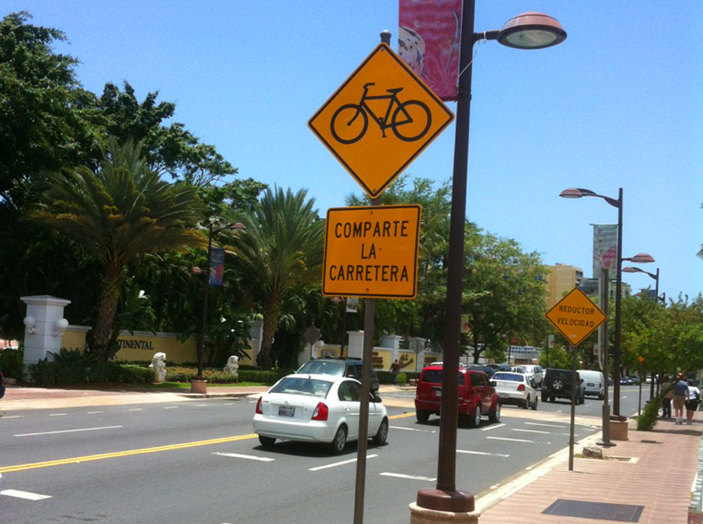 Share the road